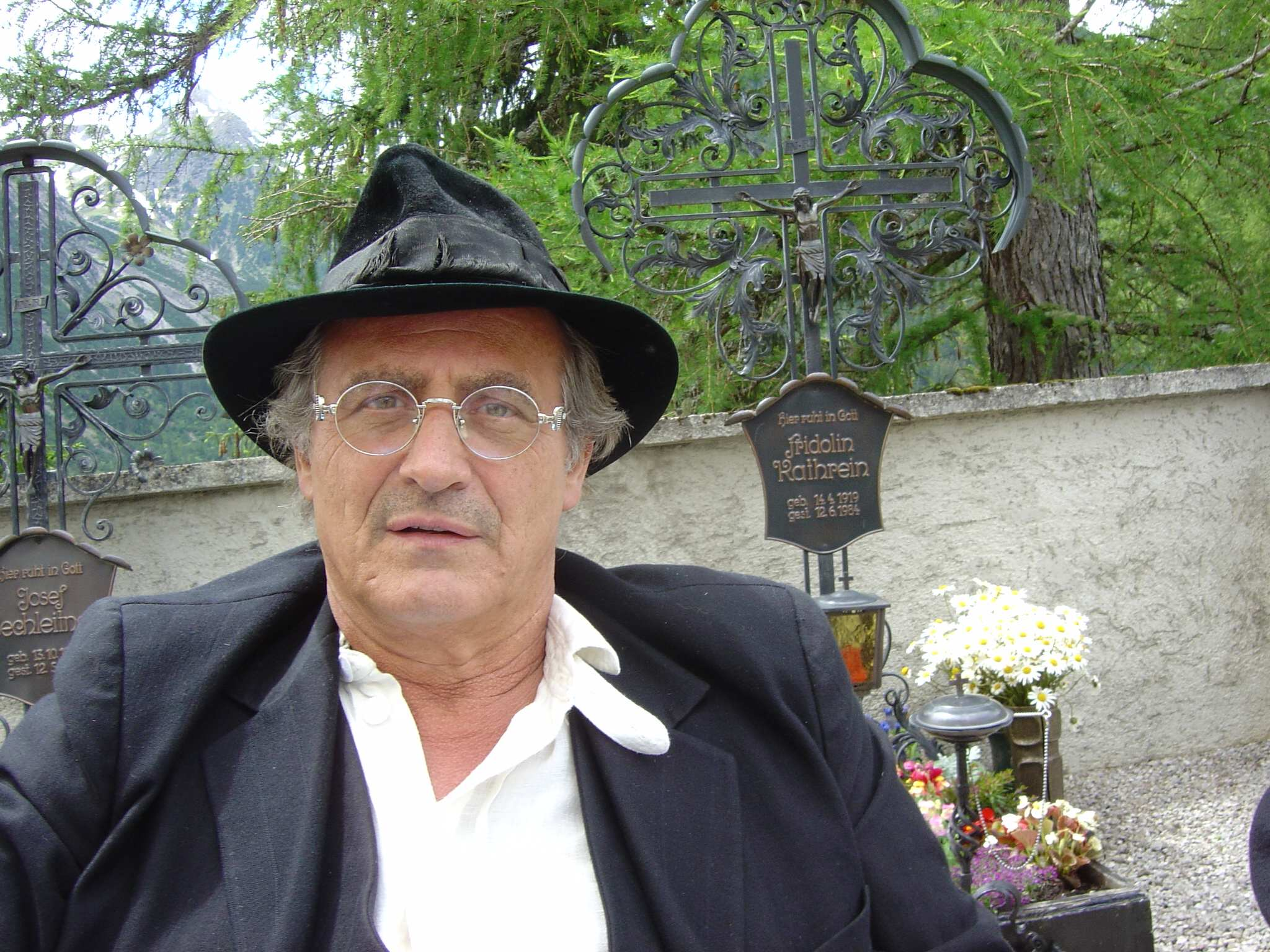 Konstantin Wecker, German Actor, Film "Appolonia"